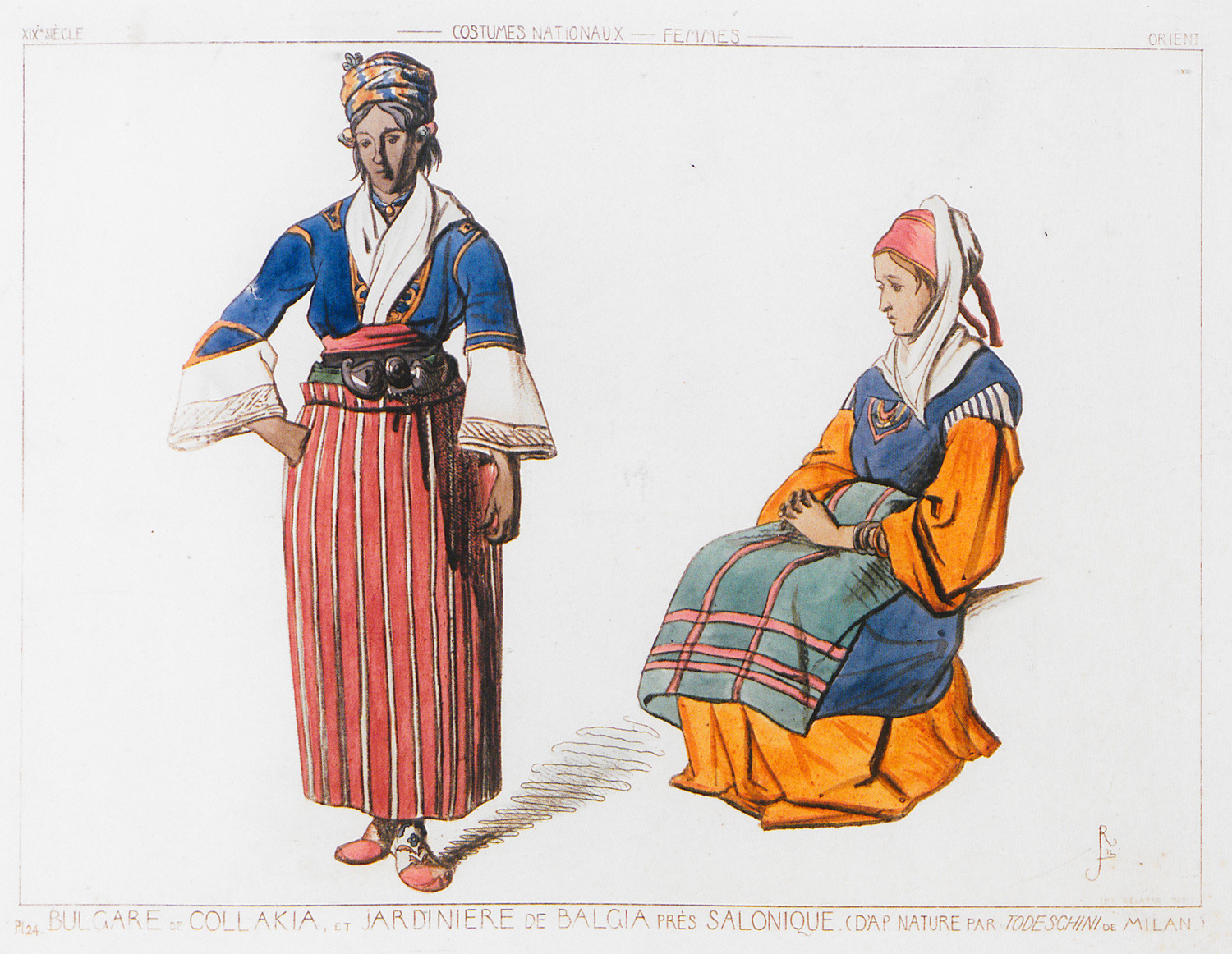 Bulgarian woman from Kolakia (Halastra). Peasant woman from Balca (Melissochori) on the outskirts of Thessaloniki. From: Raphäel Jacquemin, Iconographie générale et méthodique du costume du IVe au XIXe siècle (315-1815) [...], Paris, 1863-1869.